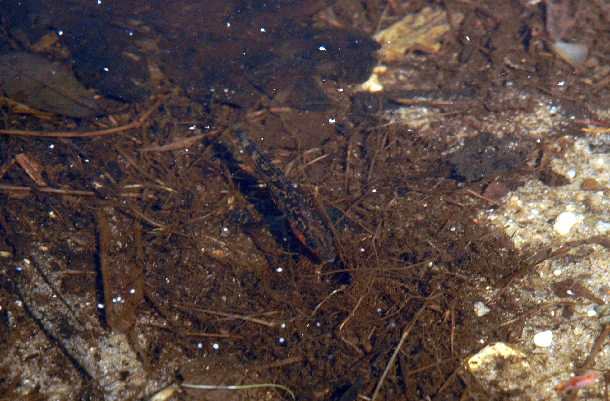 male Three-spined stickleback Gasterosteus aculeatus fanning his nest (brood care)